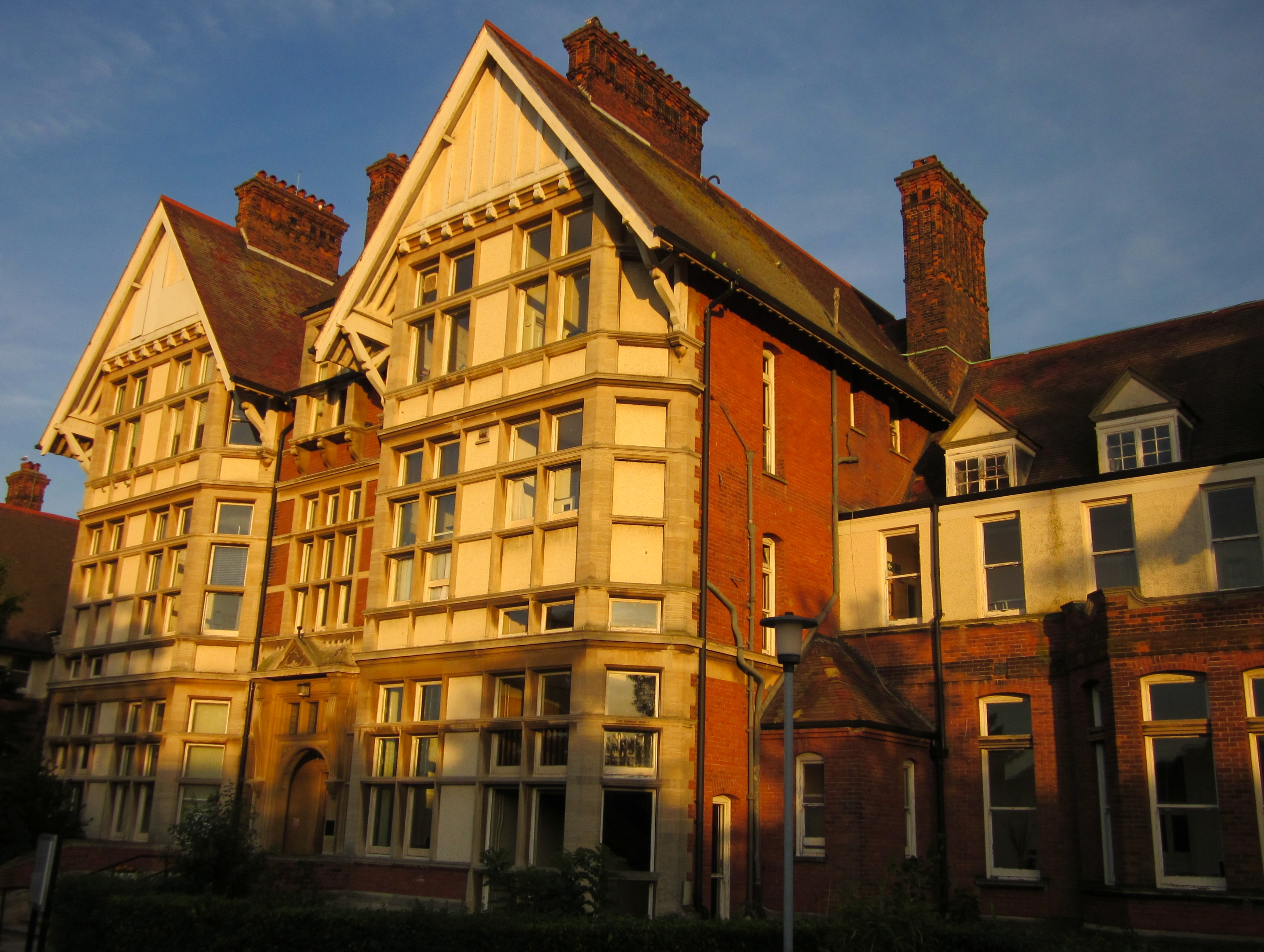 Yarrow building at Thanet College, Ramsgate Road, Broadstairs, Kent, UK. At sunset, hence the colours!